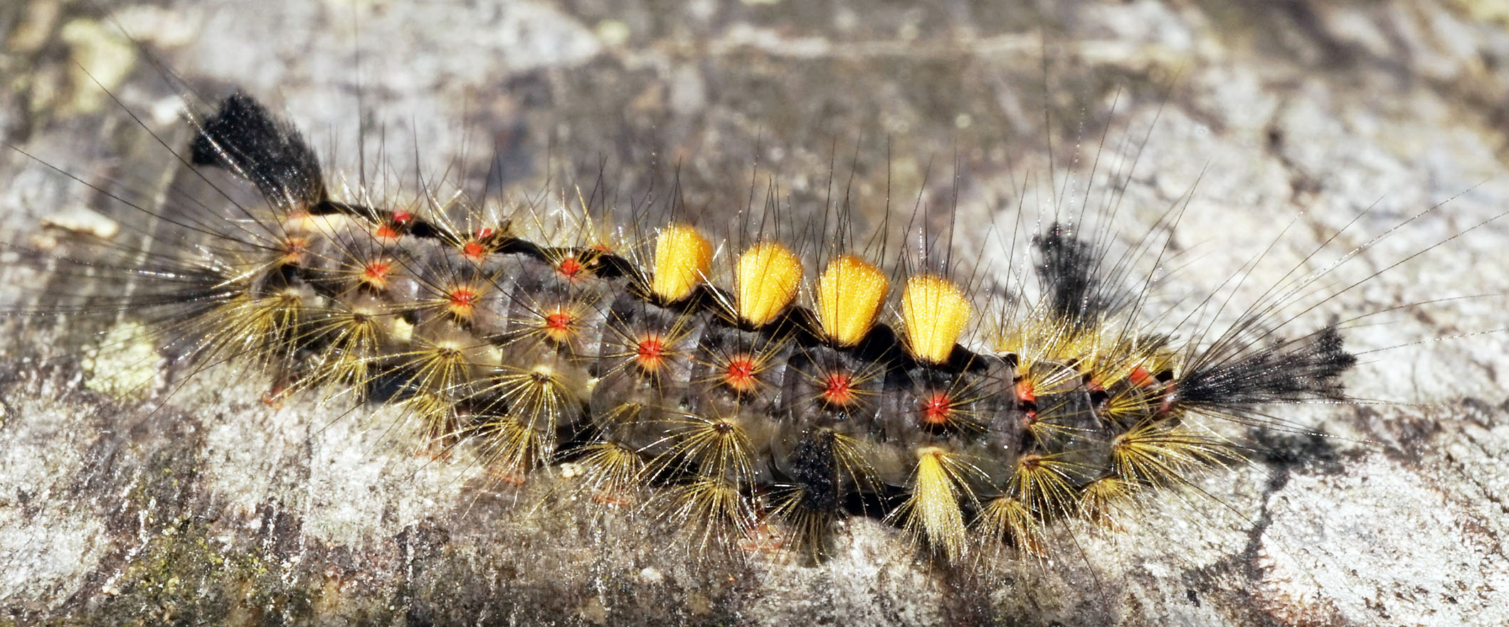 Orgyia antiqua larva in Leivonmäki National Park, Finland.This photograph was taken with a Sony ILCE-5000